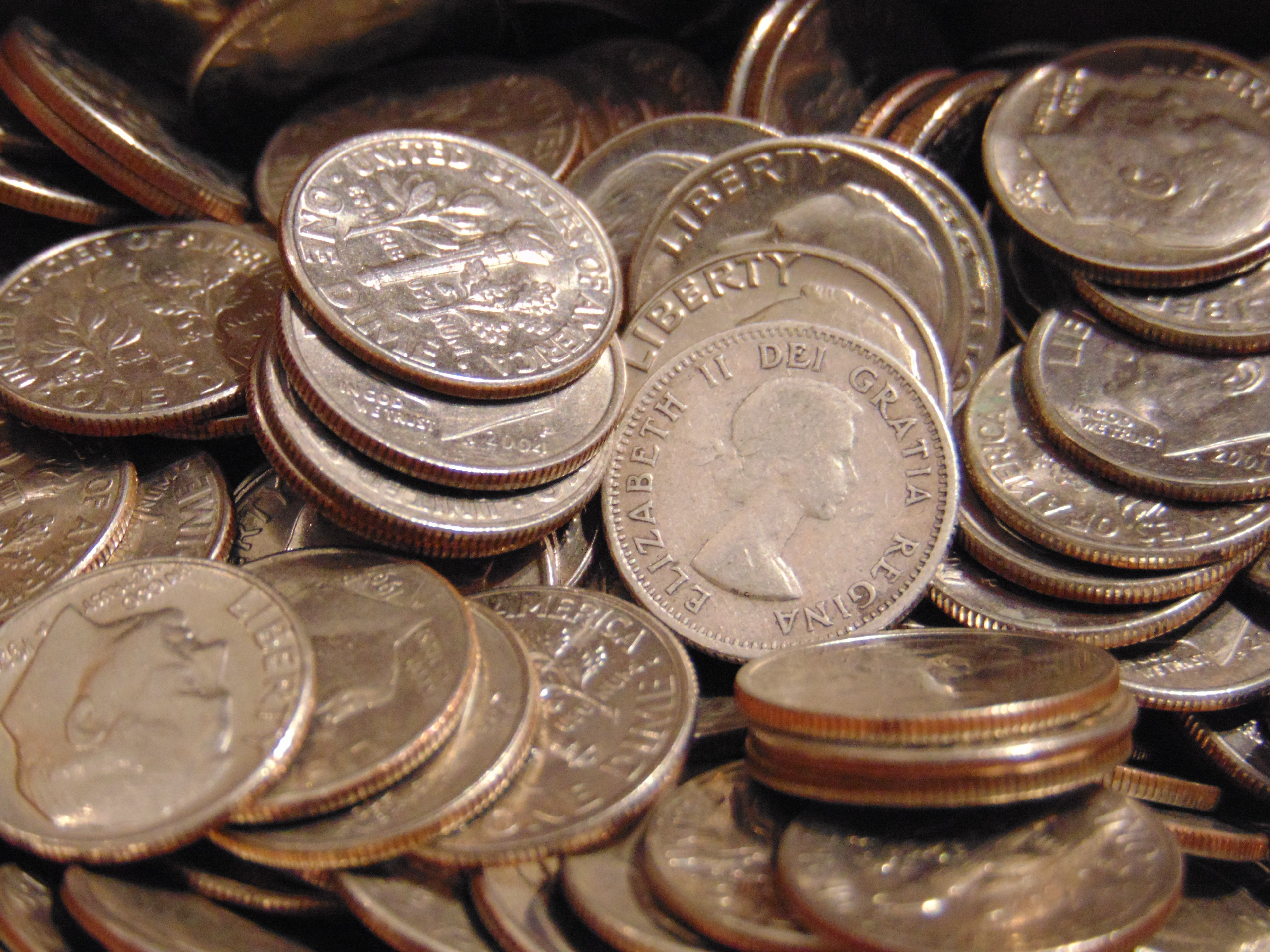 After purchasing 40 dollars worth of dimes for use as holiday change on a potential trip to the USA from the UK, it turns out I found something quite special - amongst 399 regular US dimes was one Canadian dime, and it was silver too!